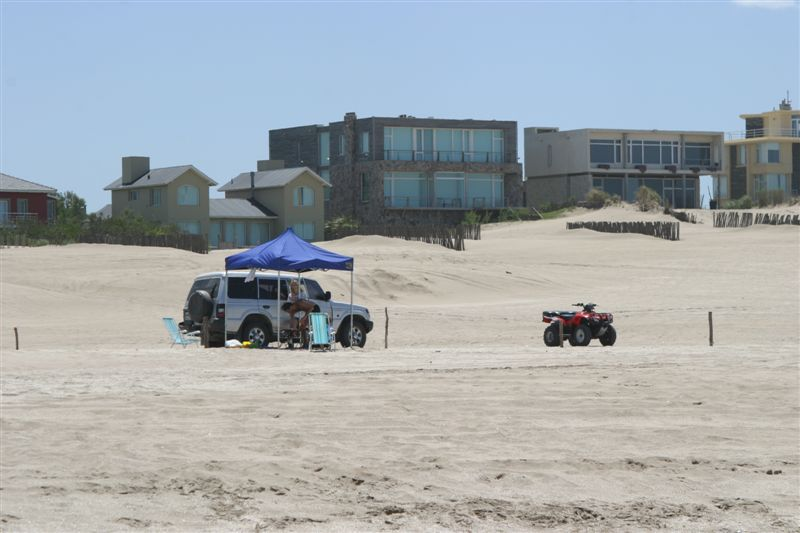 carilo bosque